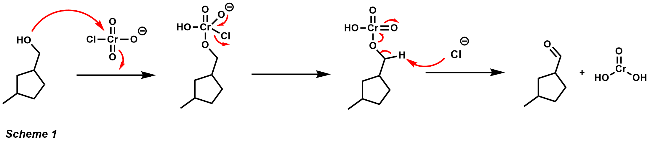 PCC machanism of alcohols